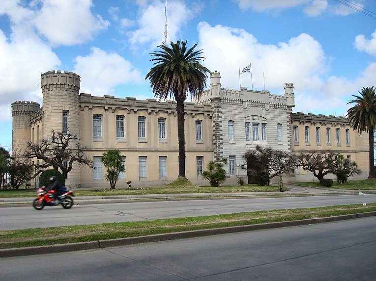 The barracks of the "Blandengues de Artigas", Pérez Castellanos, Montevideo, Uruguay.